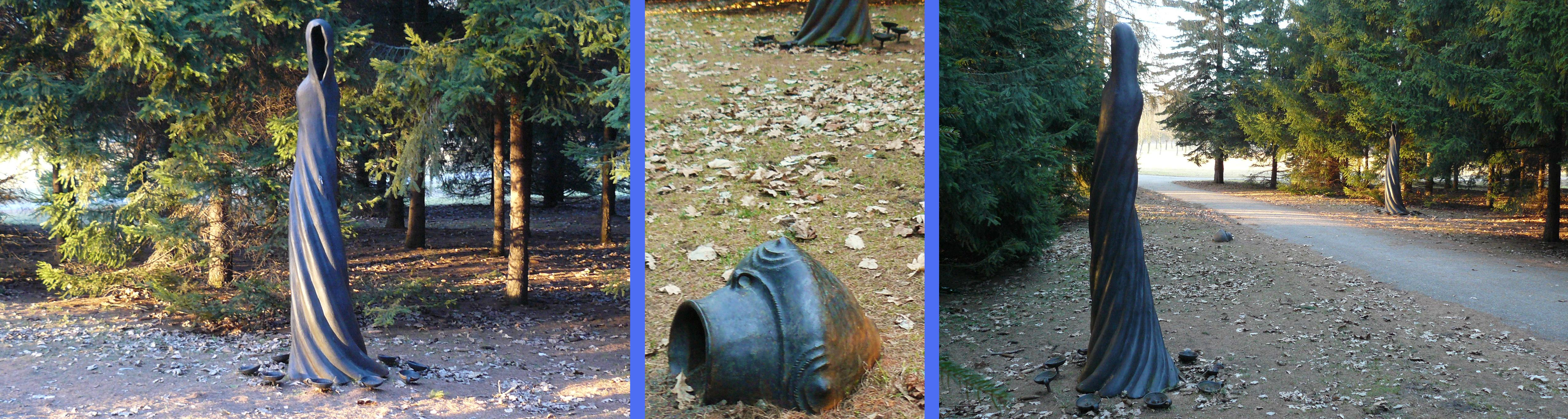 Sculpt. "Zalki", Poznan, Citadell (from Krzysztof Solowiej).